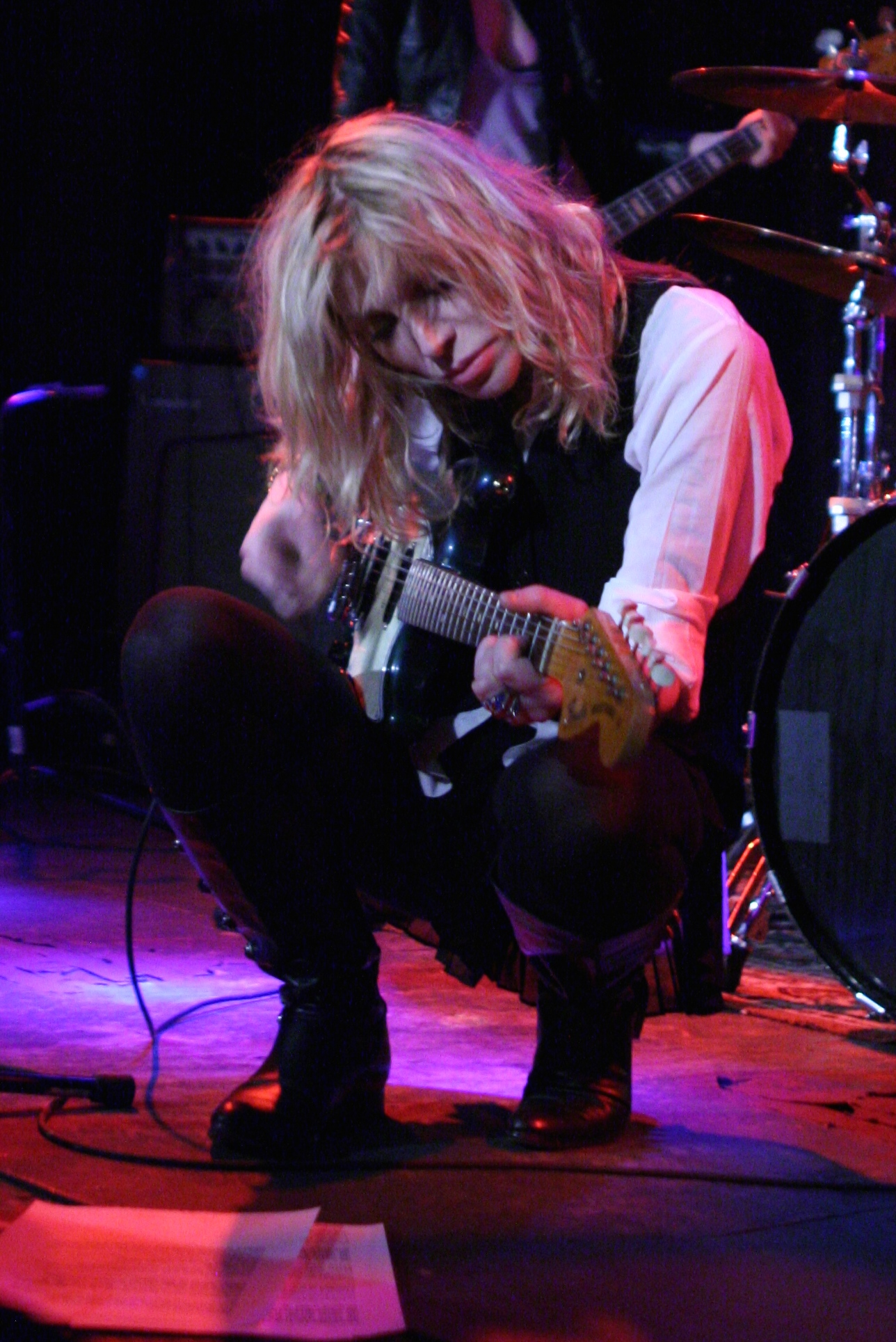 Courtney Love performing at Public Assembly, NY; April 12, 2014. Cropped from original image here